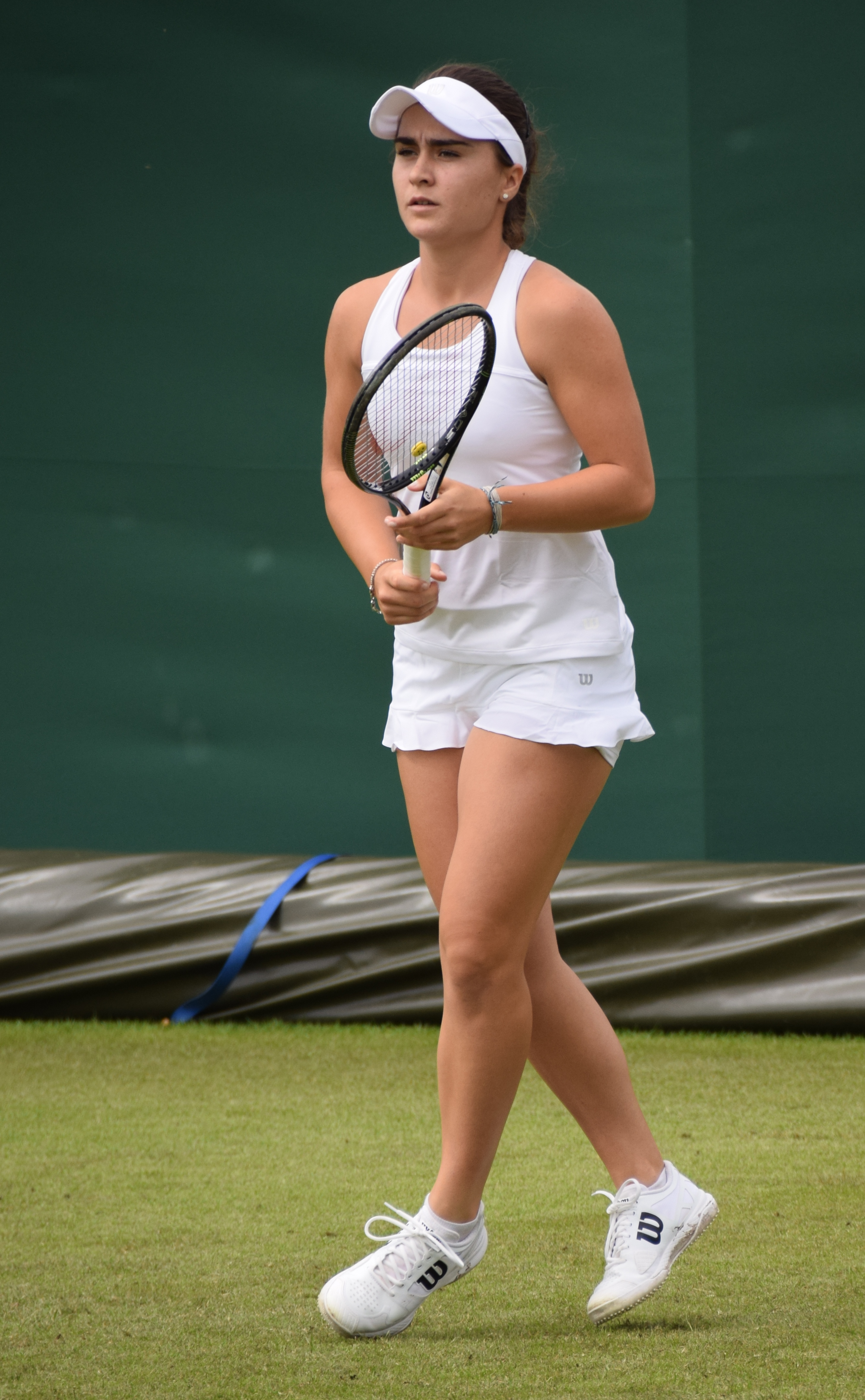 Gabi Taylor Wimbledon 2016